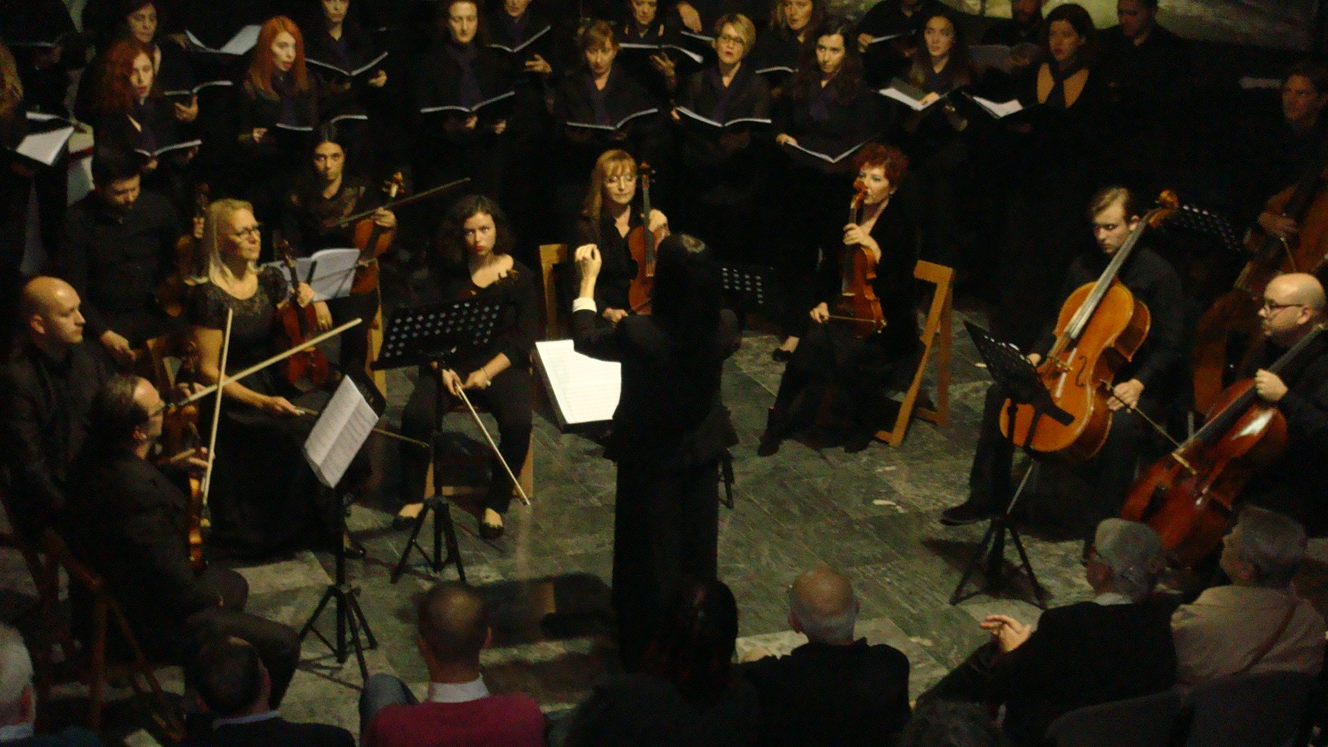 Concert of choir Artizan, on 13 October 2017 in Skopje